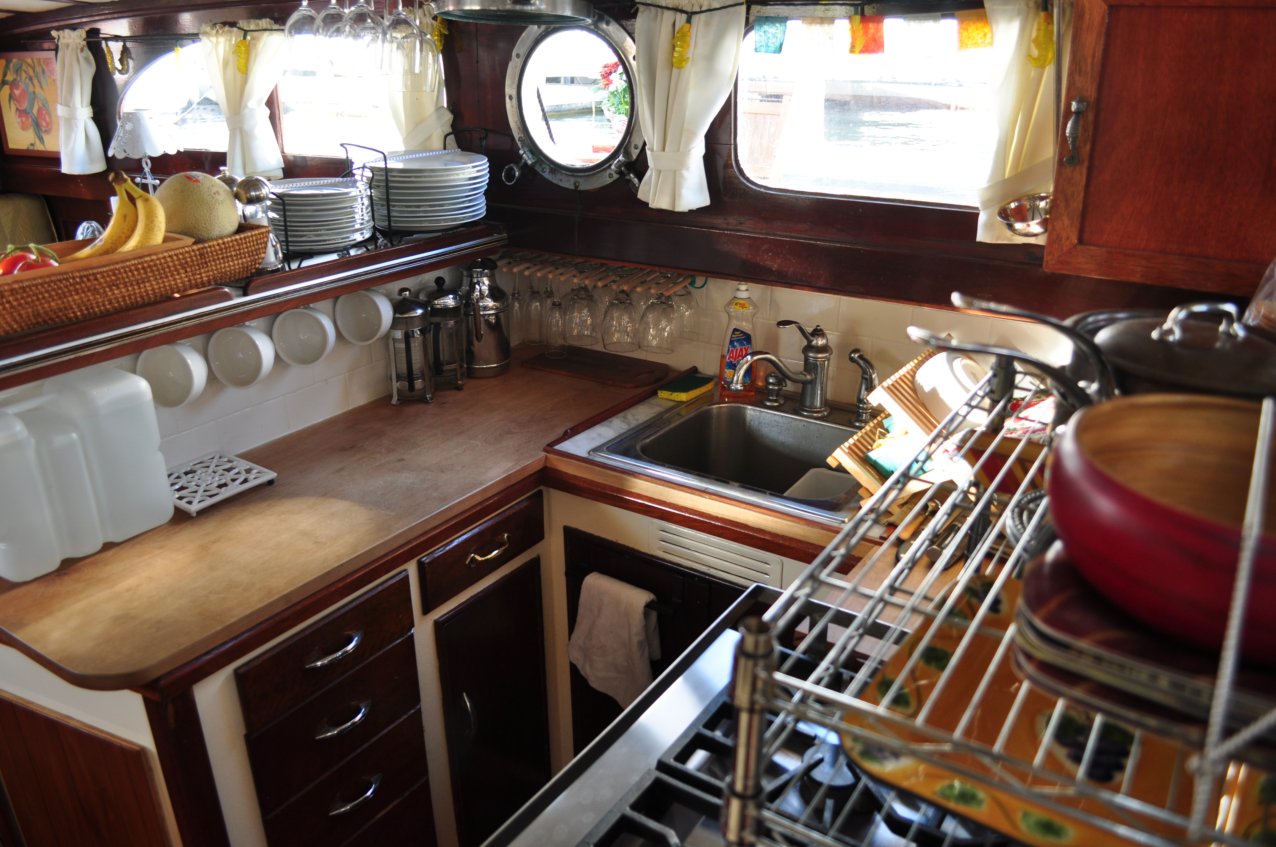 Aboard the Carol M., designed by Ed Monk, Sr. and built in 1948 by Grandy Boat Works on Lake Union Seattle, Washington. 30' overall length, 40' deck, 11' beam, 3' draft; below-water portions of the hull have been rebuilt, and upper deck structure of yellow cedar & mahogany is more recent. Photographed at Northwest Seaport, Lake Union Park, Seattle, Washington, USA during the 2013 Lake Union Wooden Boat Festival.